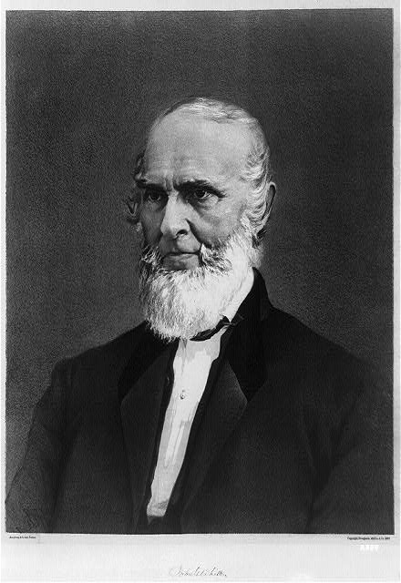 Image of American poet John Greenleaf Whittier.